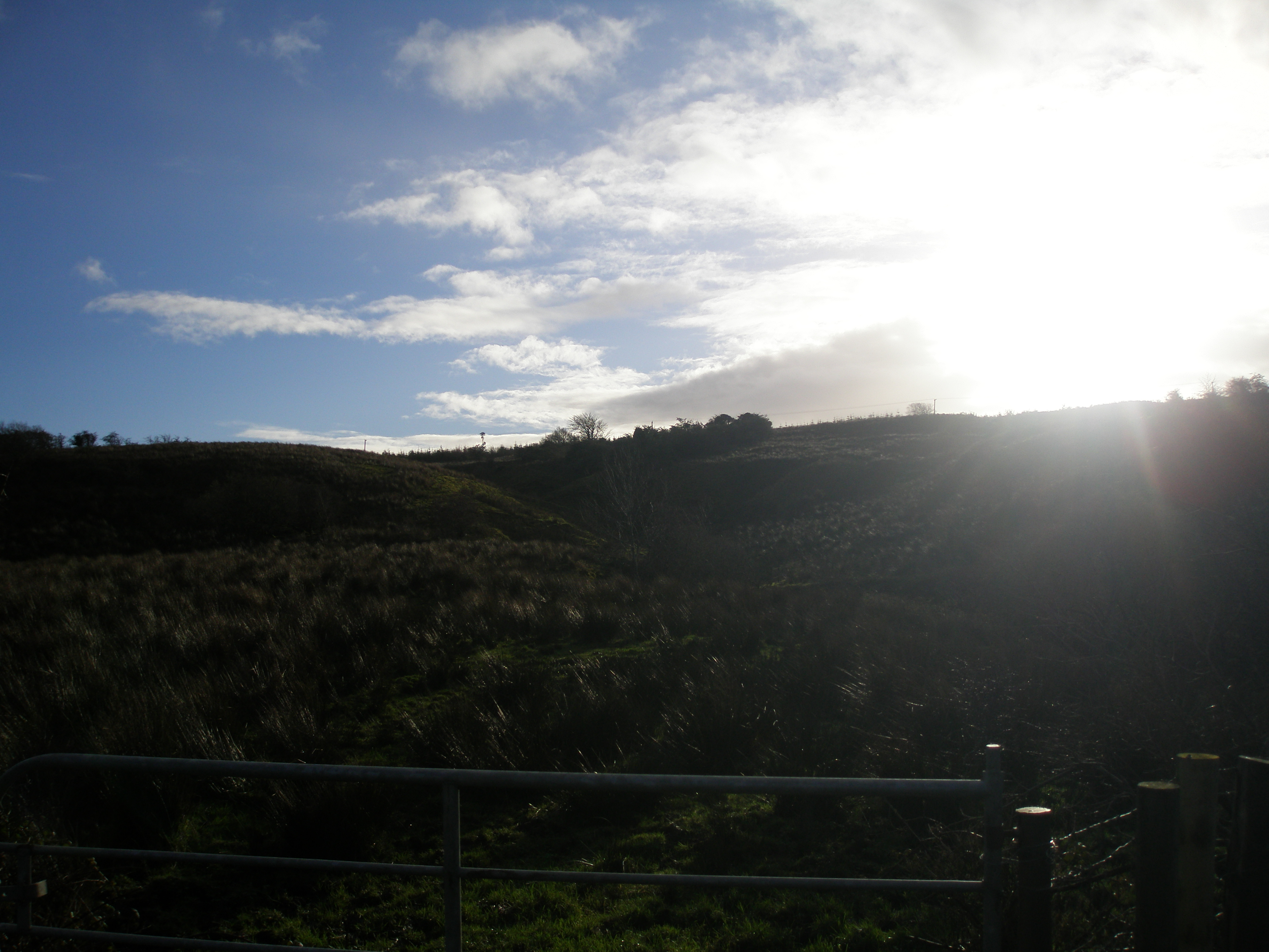 Photo of countryside in Leitrim